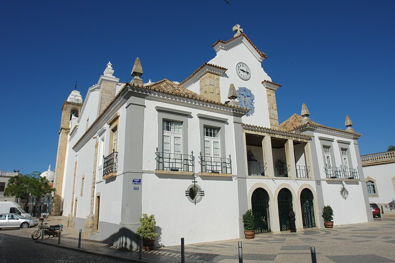 Capela Senhor dos Aflitos (chapel) at the back side of Nossa Senhora do Rosário (Church in Olhão, Algarve, Portugal).